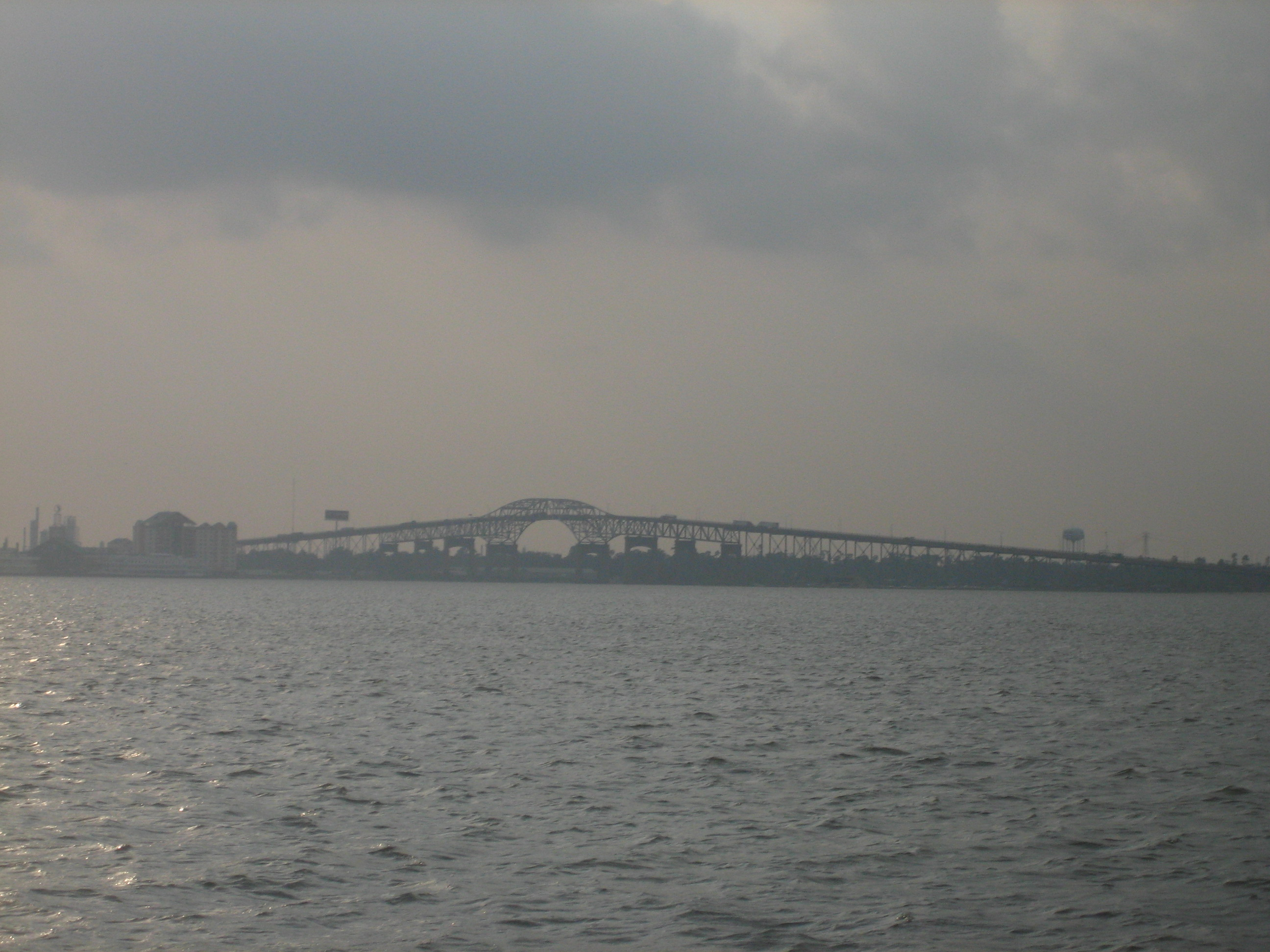 Photo of the I-10 bridge where it crosses the Calcasieu River north of Lake Charles (the lake.) The picture was taken from the Lake Charles Civic Center which is on the east side of the lake.